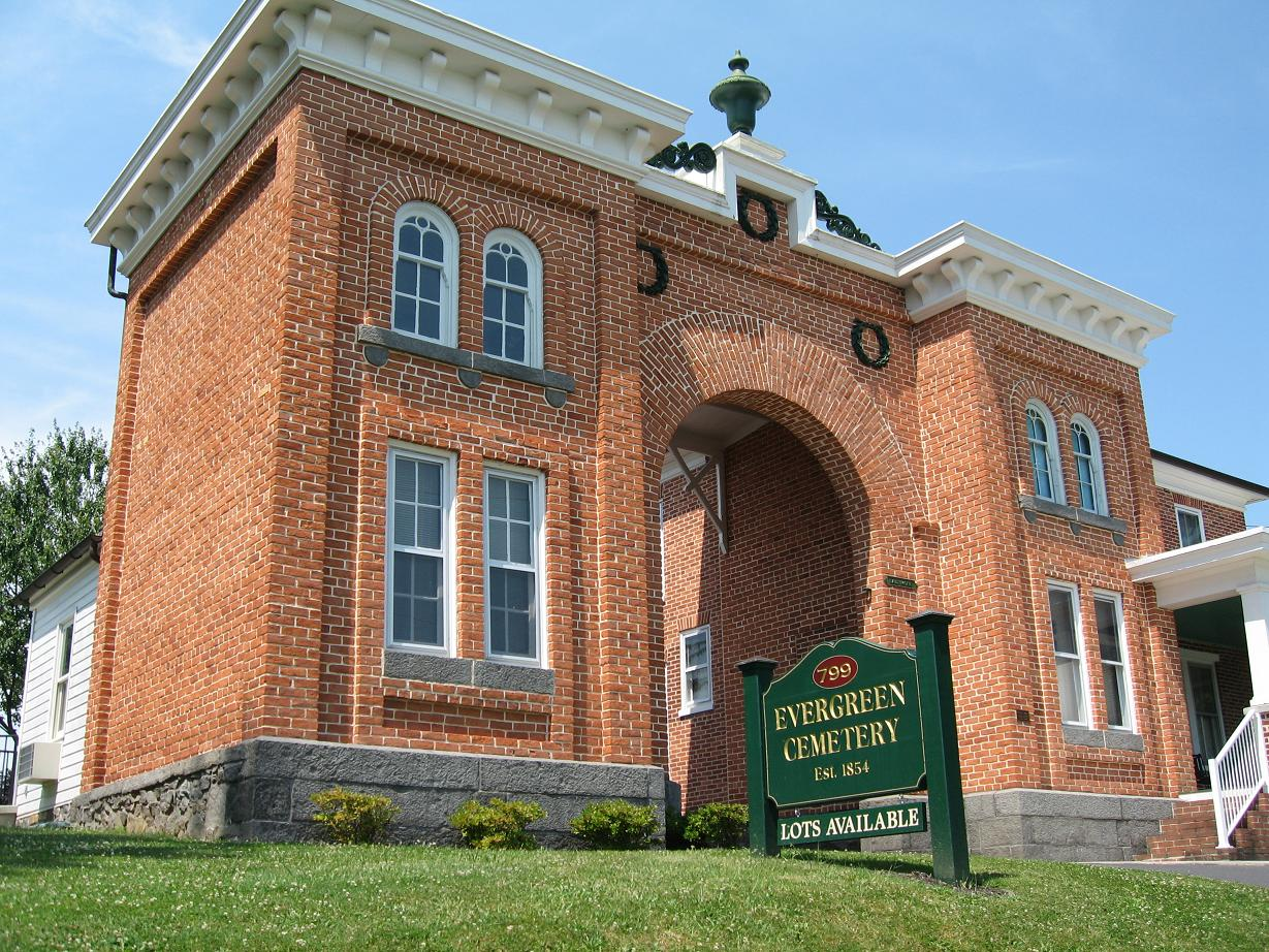 The signature landmark of of Evergreen Cemetery (Adams County, Pennsylvania), the Evergreen Cemetery gatehouse (or Archway House), predates the Battle of Gettysburg.